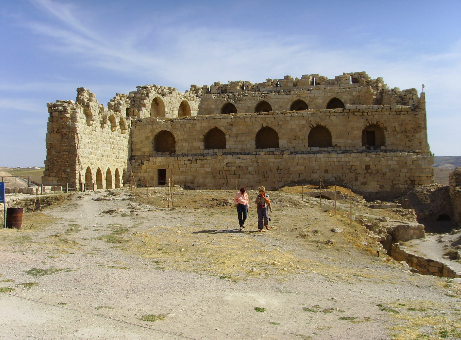 The Crusader castle Al-Karak